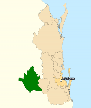 This image incorporates data that is: © Commonwealth of Australia (Australian Electoral Commission) 2009 Division of Groom 2010